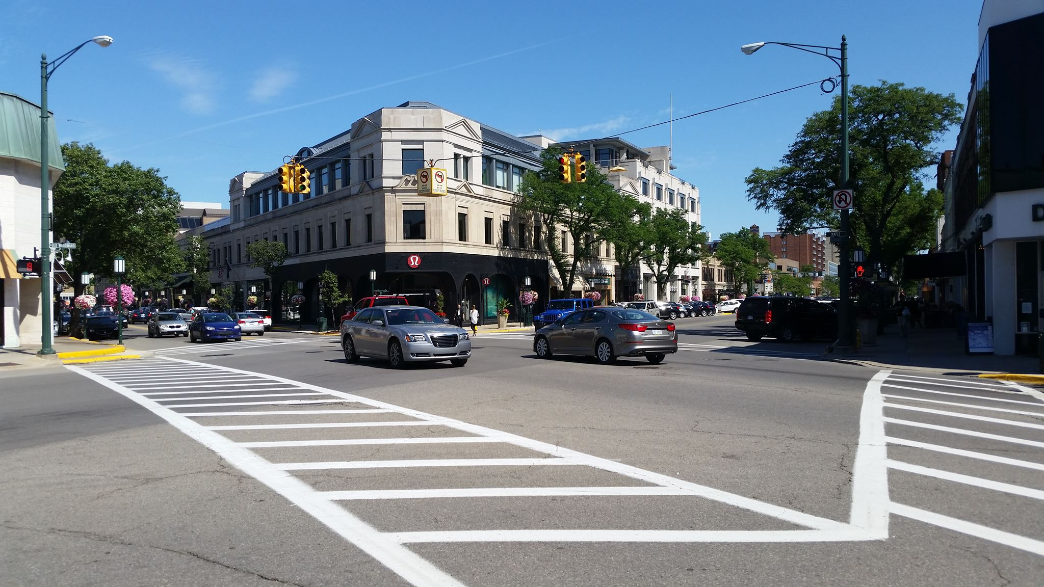 Birmingham's traditional street-side shopping district.